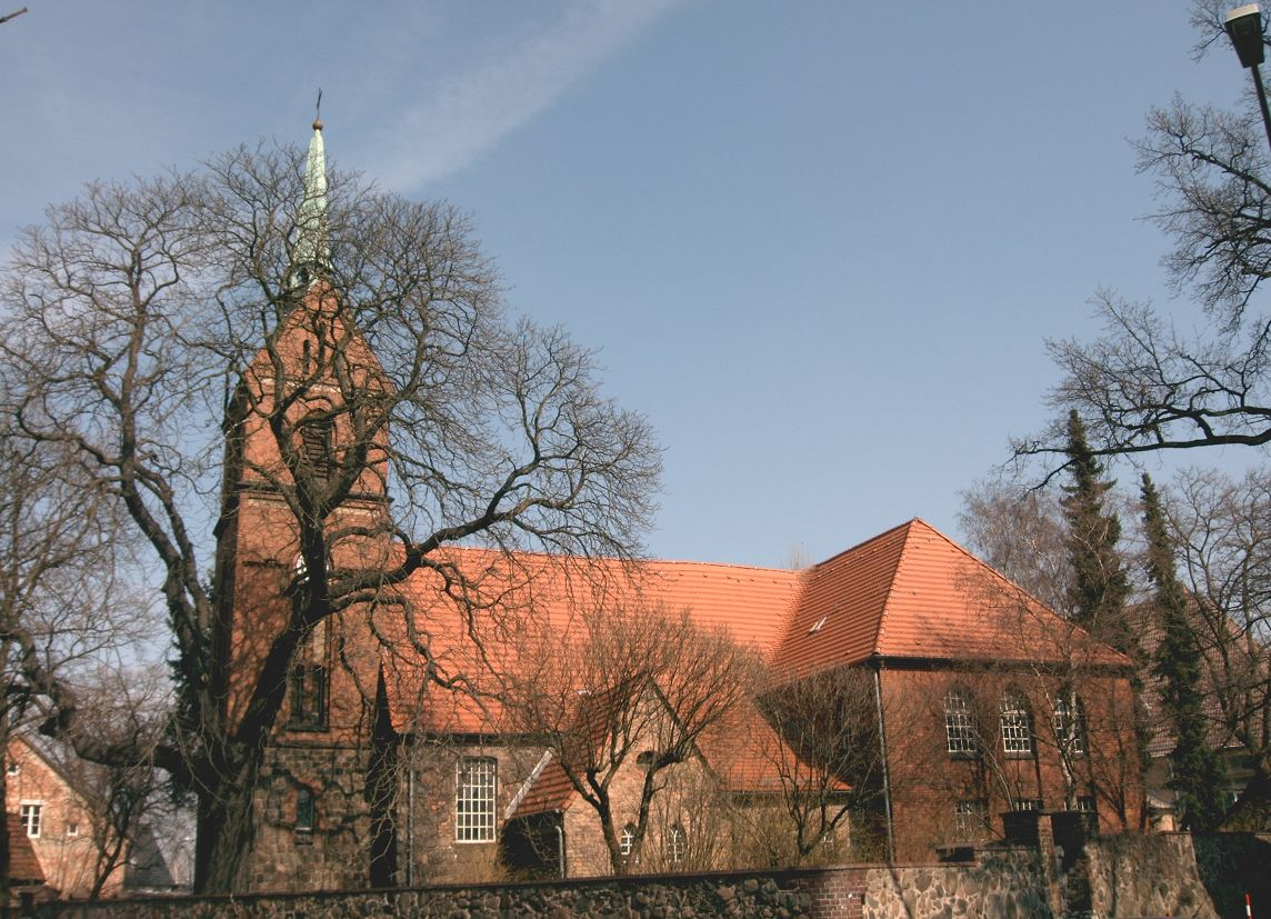 Berlin-Heinersdorf church, erected in the 19th century.